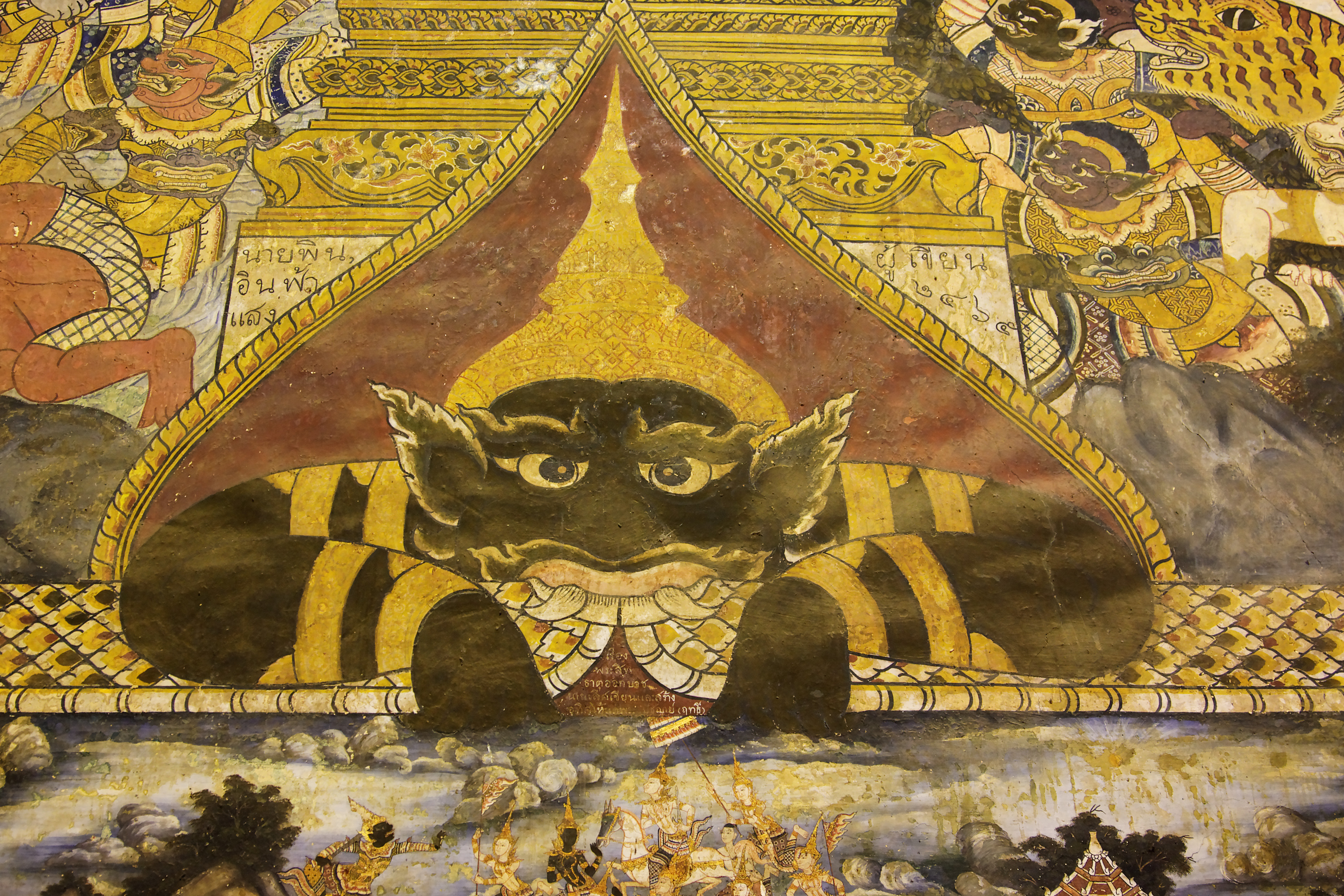 Wat Mahathat Worawihan is a buddhist temple located in the province of Phetchaburi, Thailand